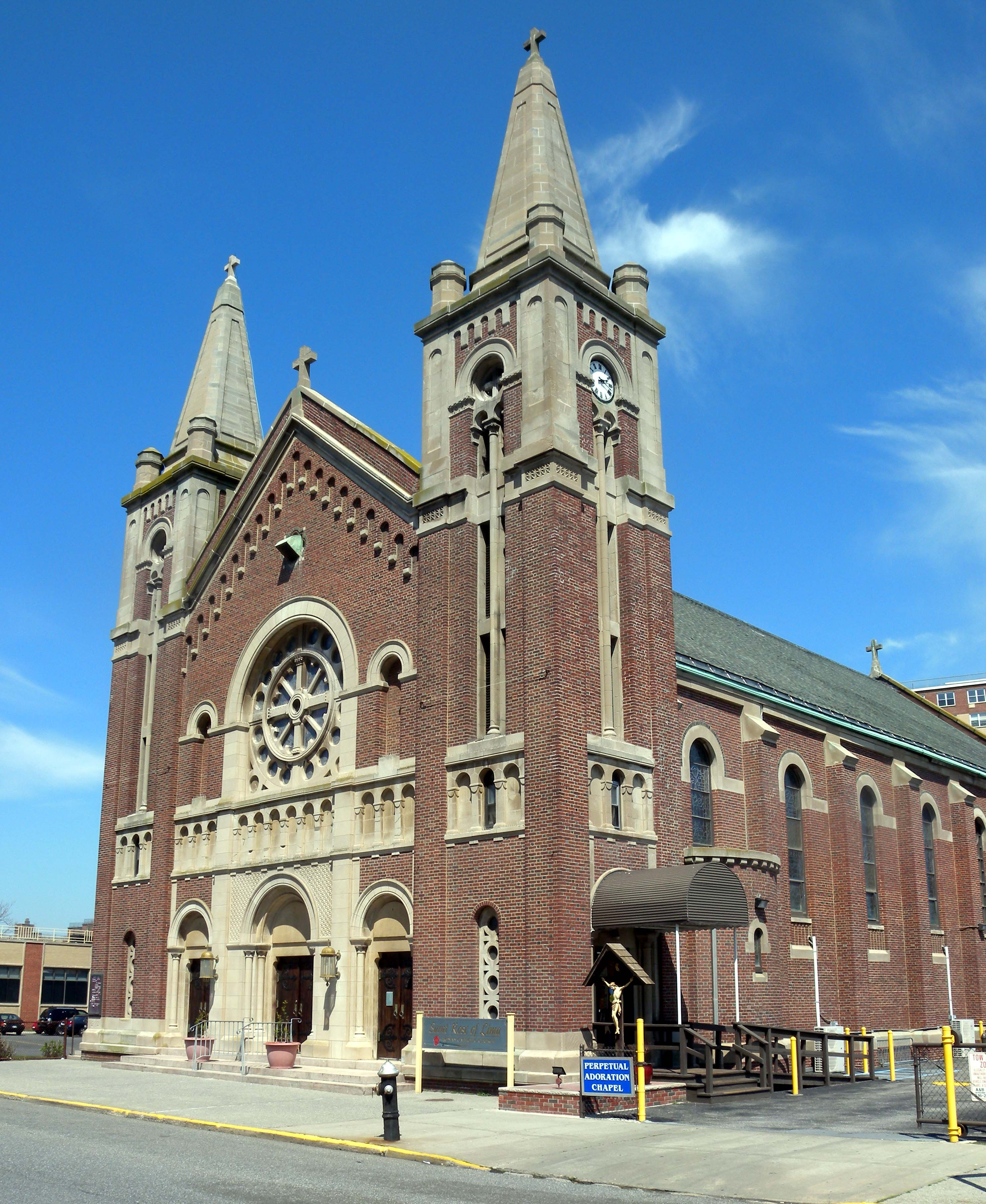 Looking northeast across Beach 84th Street in Hammels, Queens at Saint Rose of Lima Roman Catholic Church on a sunny midday.